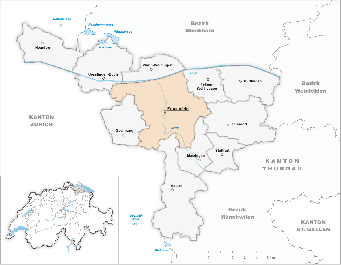 Municipality Frauenfeld